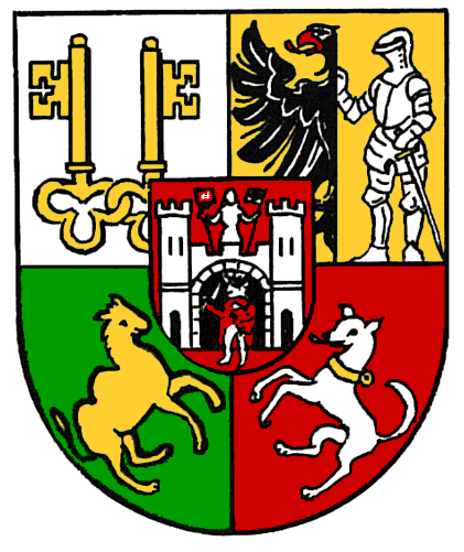 Small Coat of Arms of the city of Plzeň